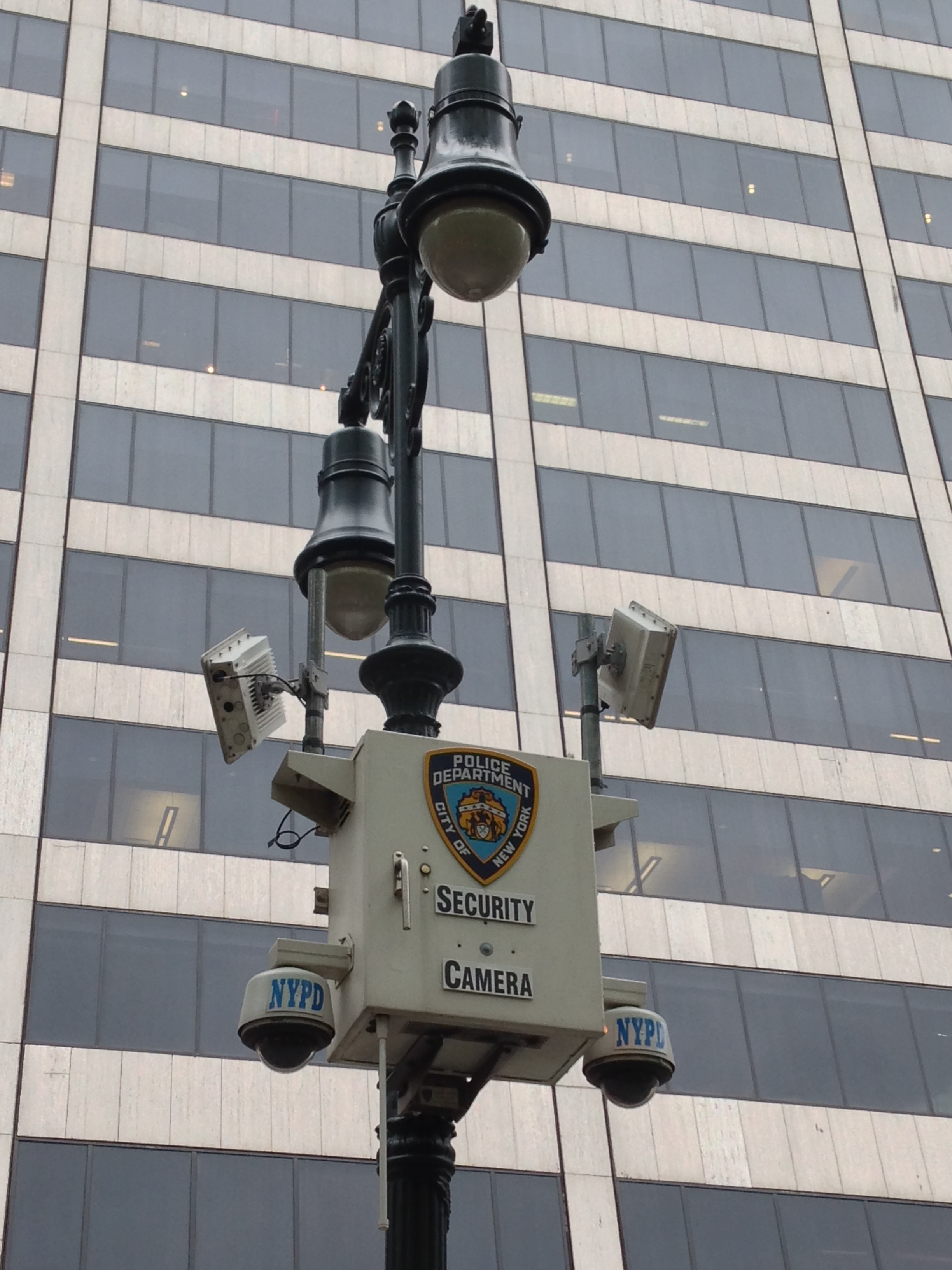 Wireless security cameras on lamp post deployed by New York City Police Department. The communication is done through the government-only network called NYCWiN.